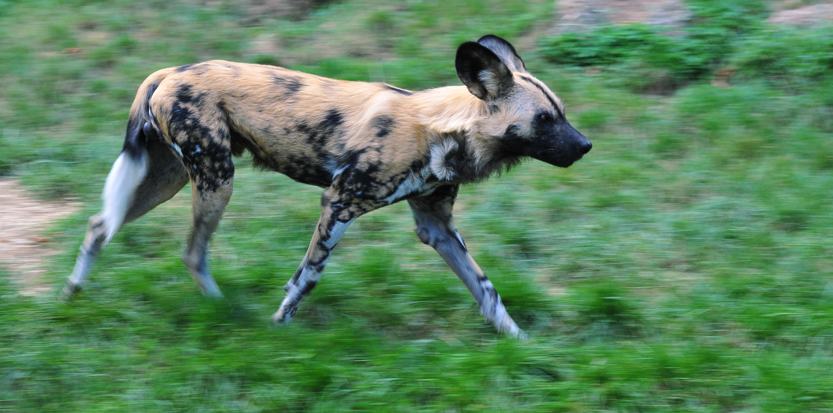 The African Wild Dog is running up to 5 km at a speed of 55 km per hour. Only 3000-5000 African Wild Dogs lived 1997 in the wild. African Wild Dogs are endangered.